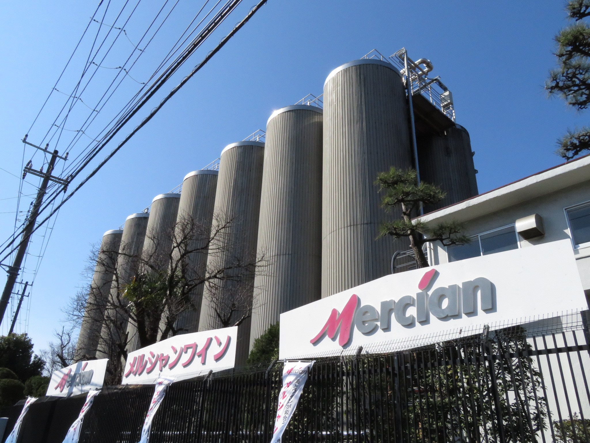 Mercian Corp. Fujisawa Factory in Fujisawa, Kanagawa Prefecture, Japan